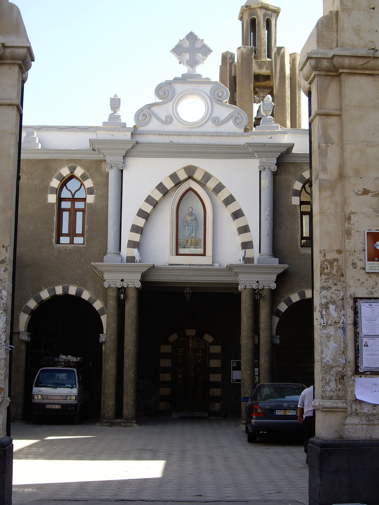 Syrian Catholic Cathedral, Damascus